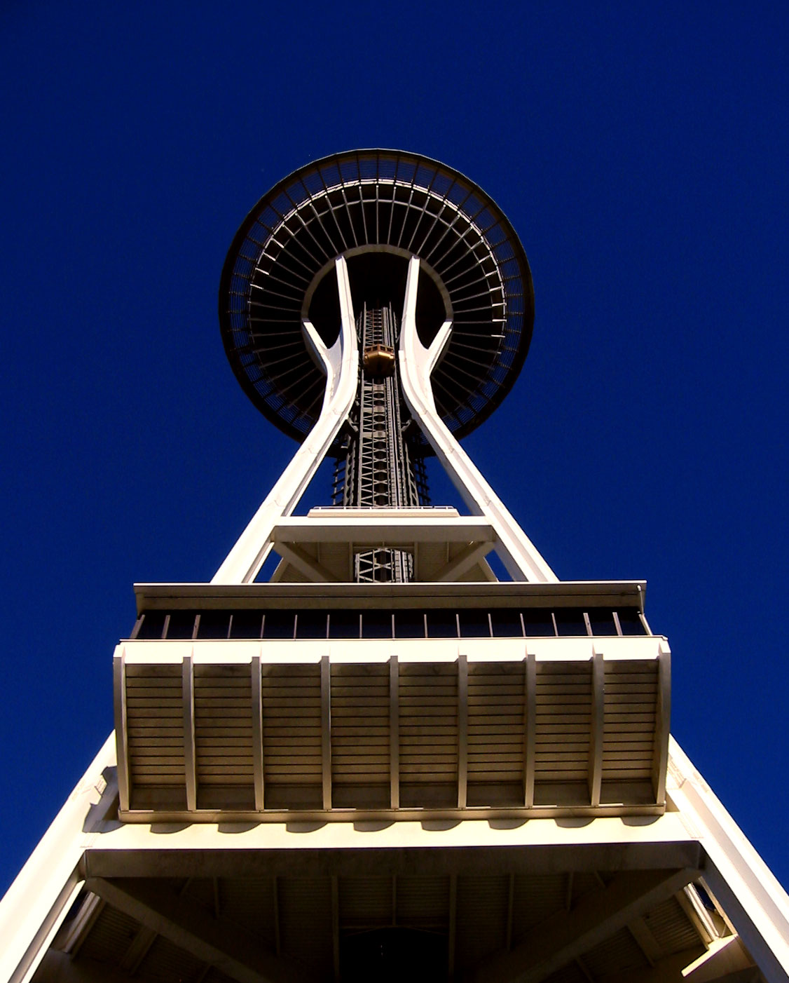 The Space Needle at Seattle Center in Seattle, Washington.